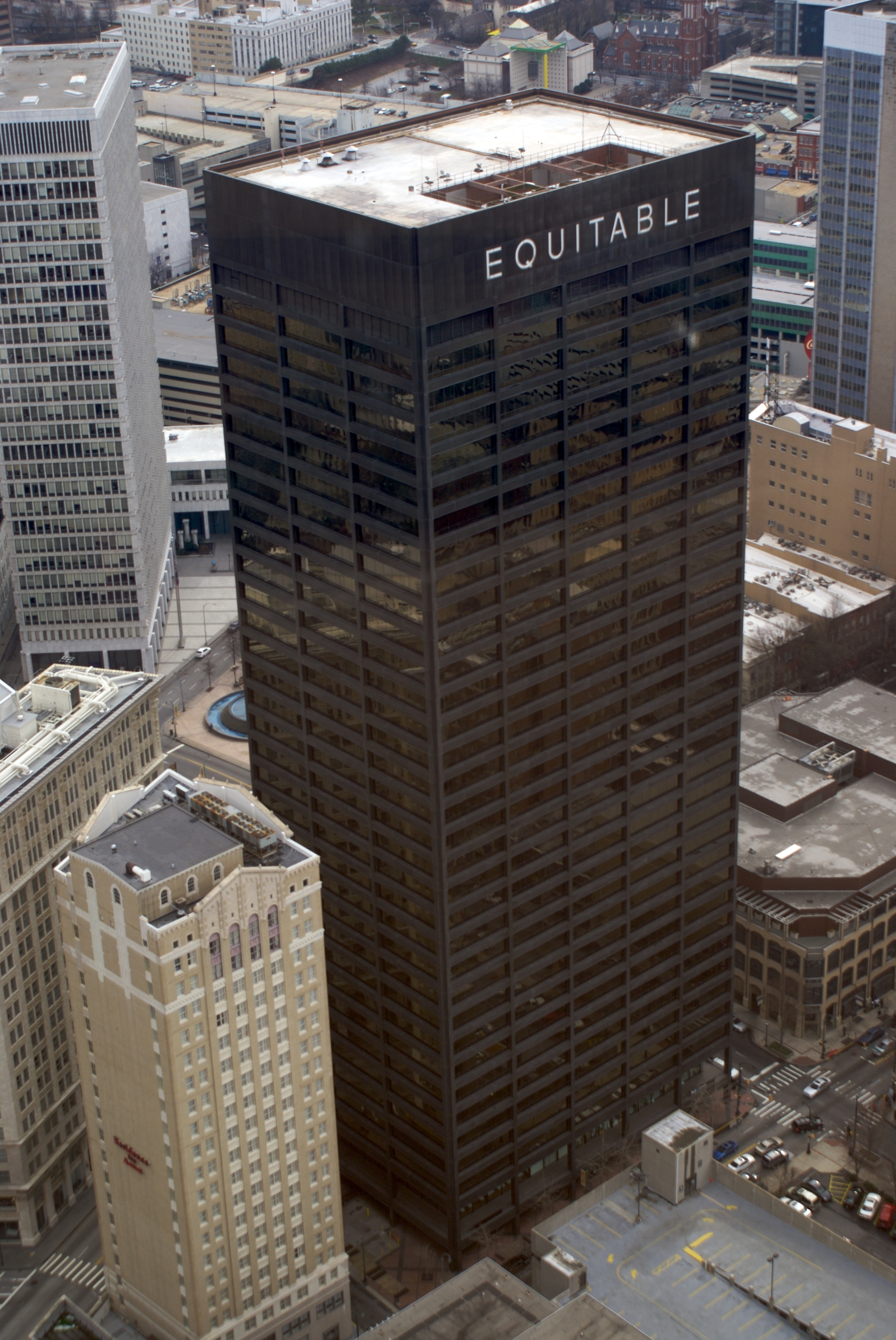 Equitable Building (Atlanta), taken looking toward south from Westin Peachtree Plaza Hotel. Rhodes-Haverty Building (across Williams Street) at lower left, Flatiron Building (across Peachtree Street) behind that. Woodruff Park to the south (across Auburn Avenue / Luckie Street) is behind the Equitable Building.